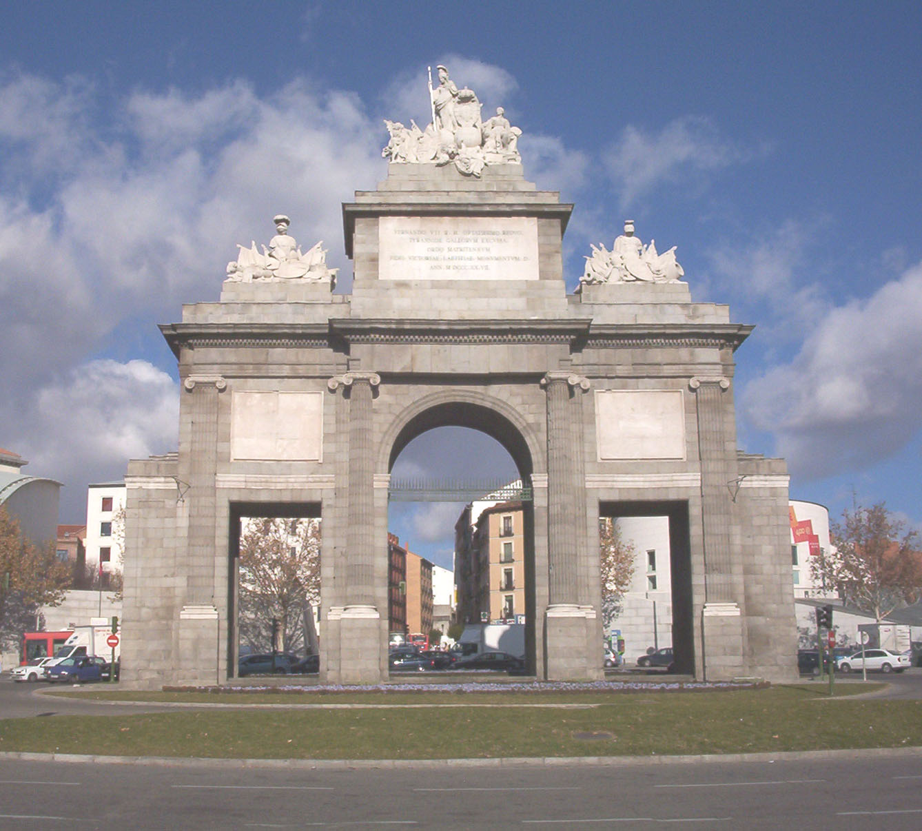 South façade of the Puerta de Toledo (Madrid, Spain, 1813–1827). Architect: Antonio López Aguado (1764–1831).